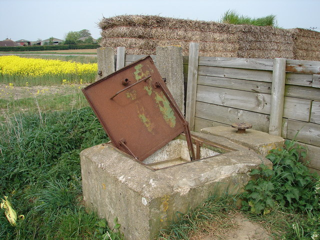 ROC Post off B1209 Ruskington / Leasingham Road This Royal Observer Corps station is hidden behind a silage storage area off the B1209. It is still open and has obviously been used recently judging by its insides.